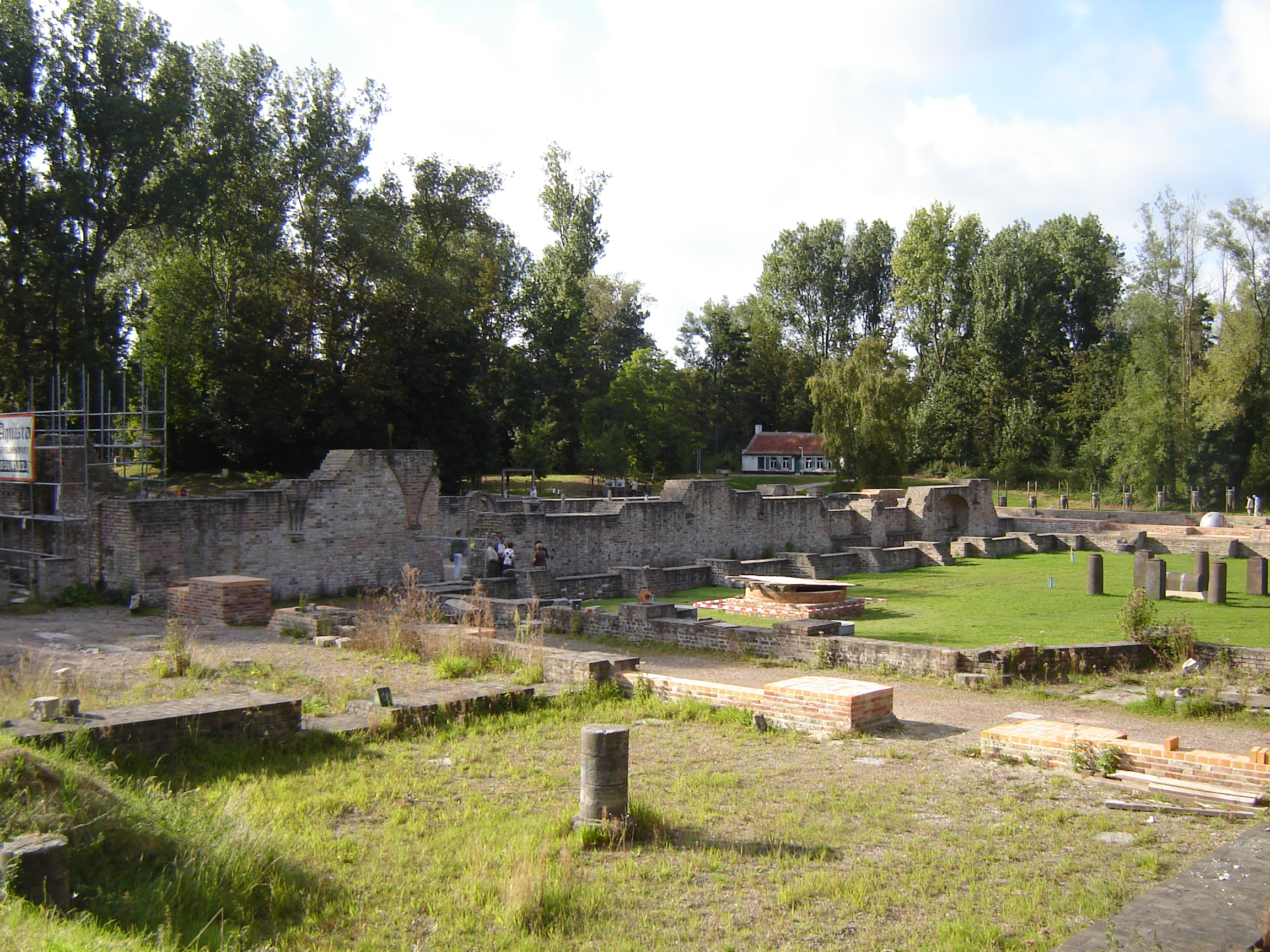 Ruins and excavations of the former Cistercian abbey Onze-Lieve-Vrouw Ten Duinen (Our Lady of the Dunes) in Koksijde. Koksijde, West Flanders, Belgium